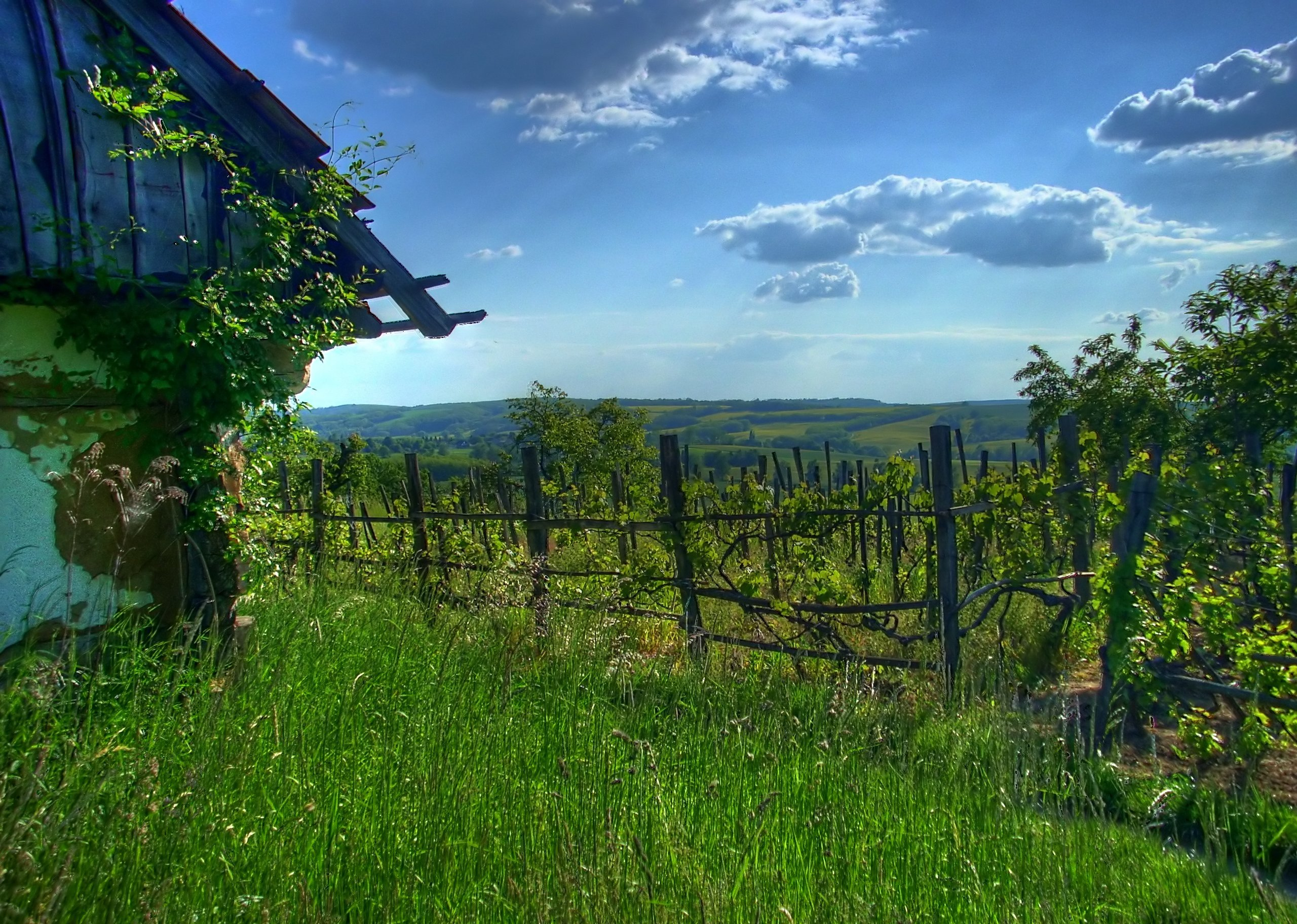 Wiev from Genehegy, Söjtör, Hungary.